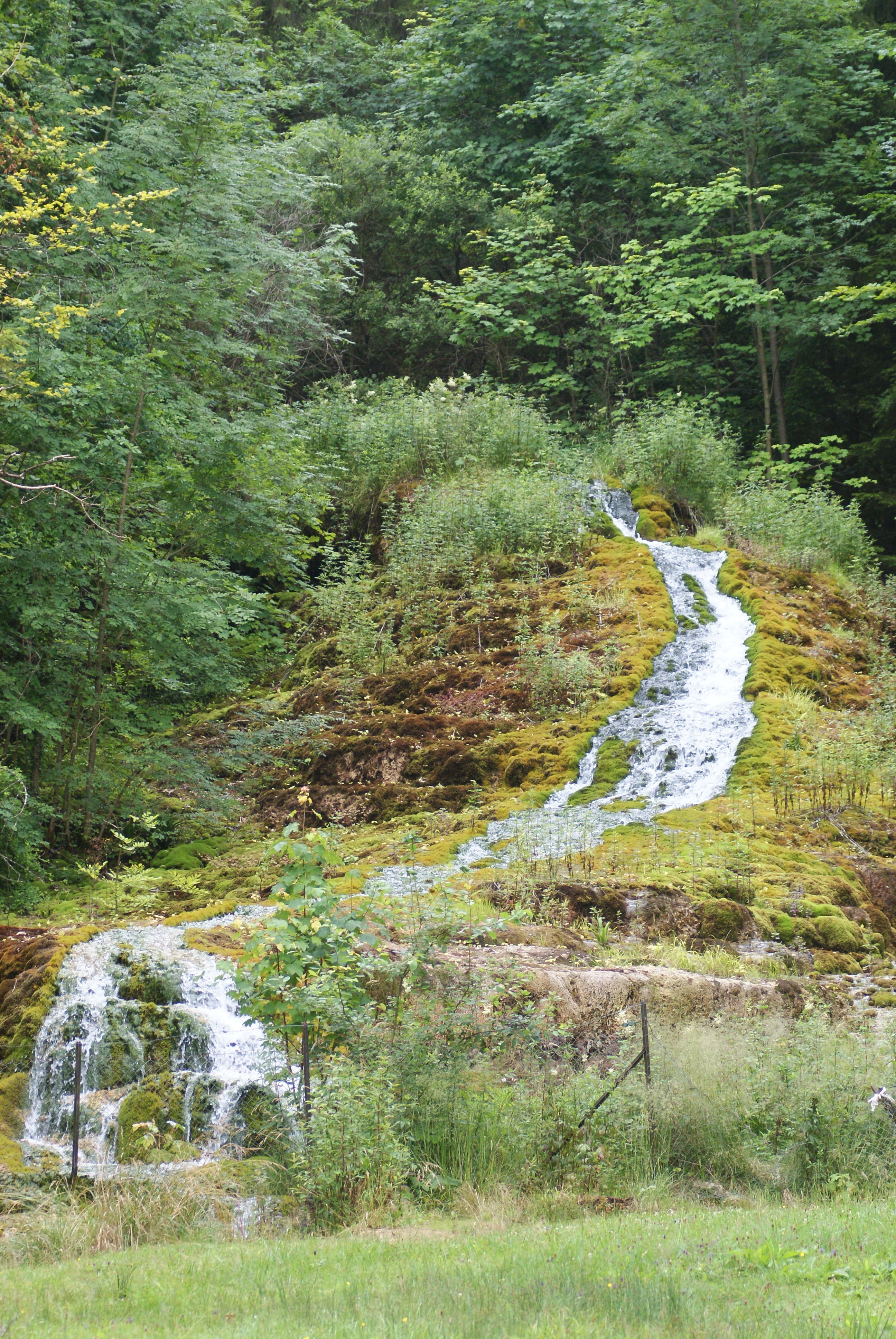 Petrifying waterfall